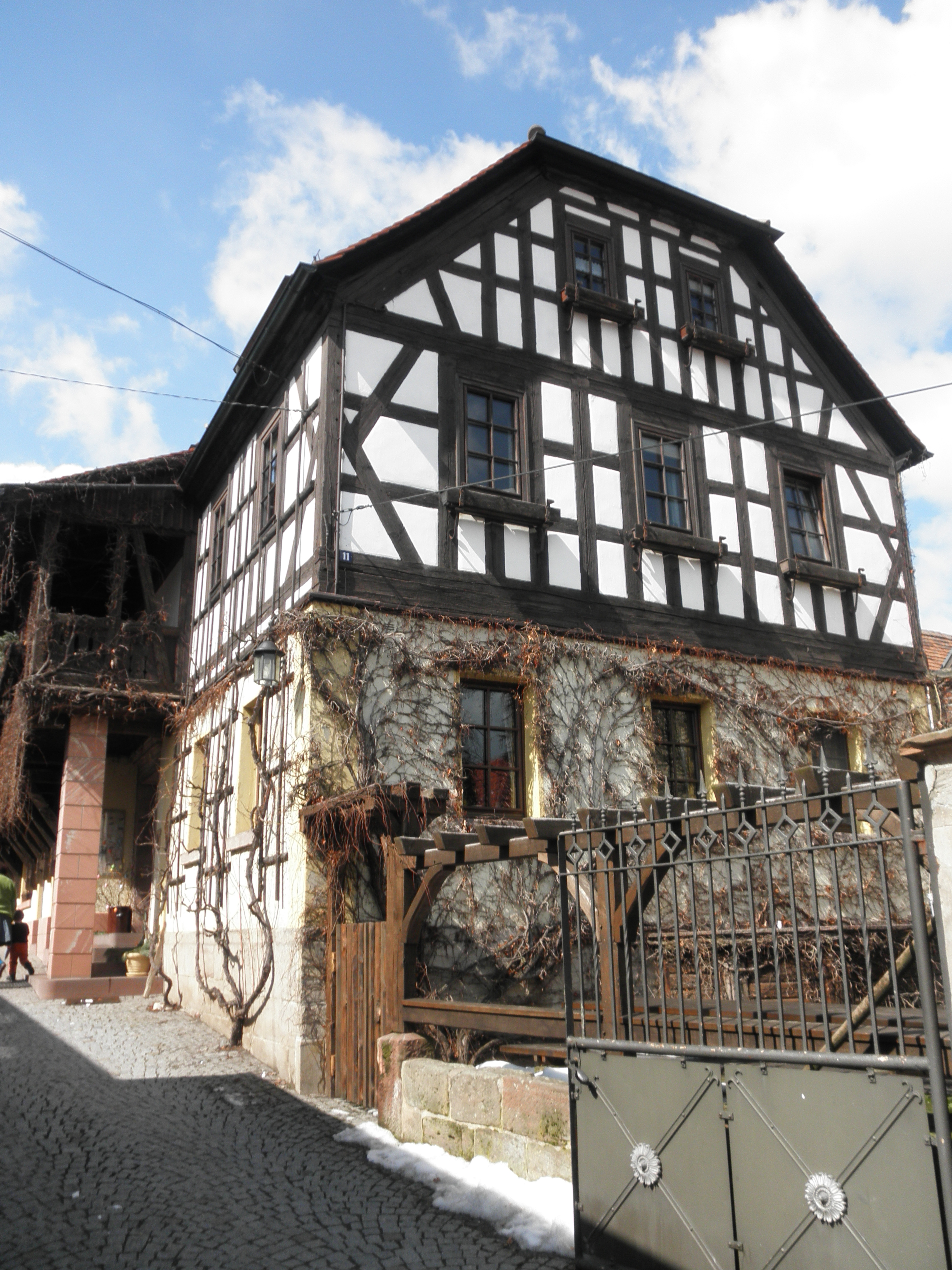 Restaurant in Magersdorf (Unterbodnitz) in Thuringia